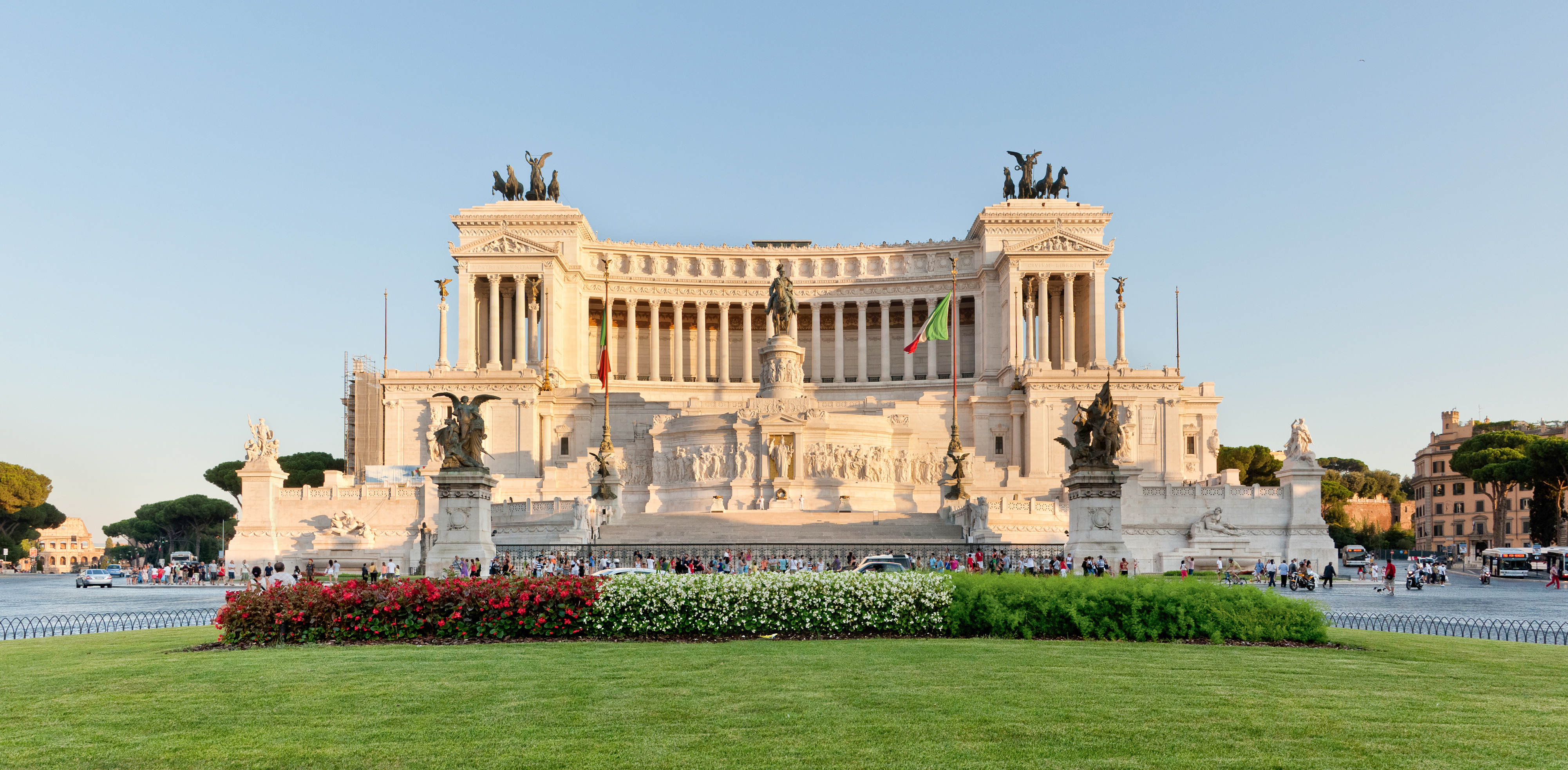 National Monument to Victor Emmanuel II, situated in Piazza Venezia Rome.